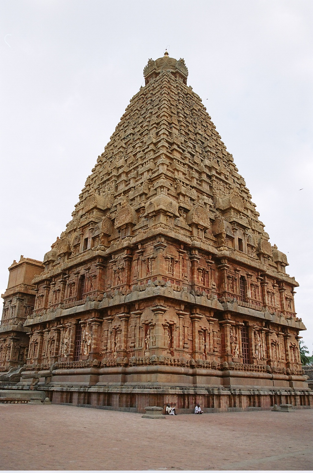 A rear right side view of the main temple at the Brihadeshwara temple complex in Tanjore.